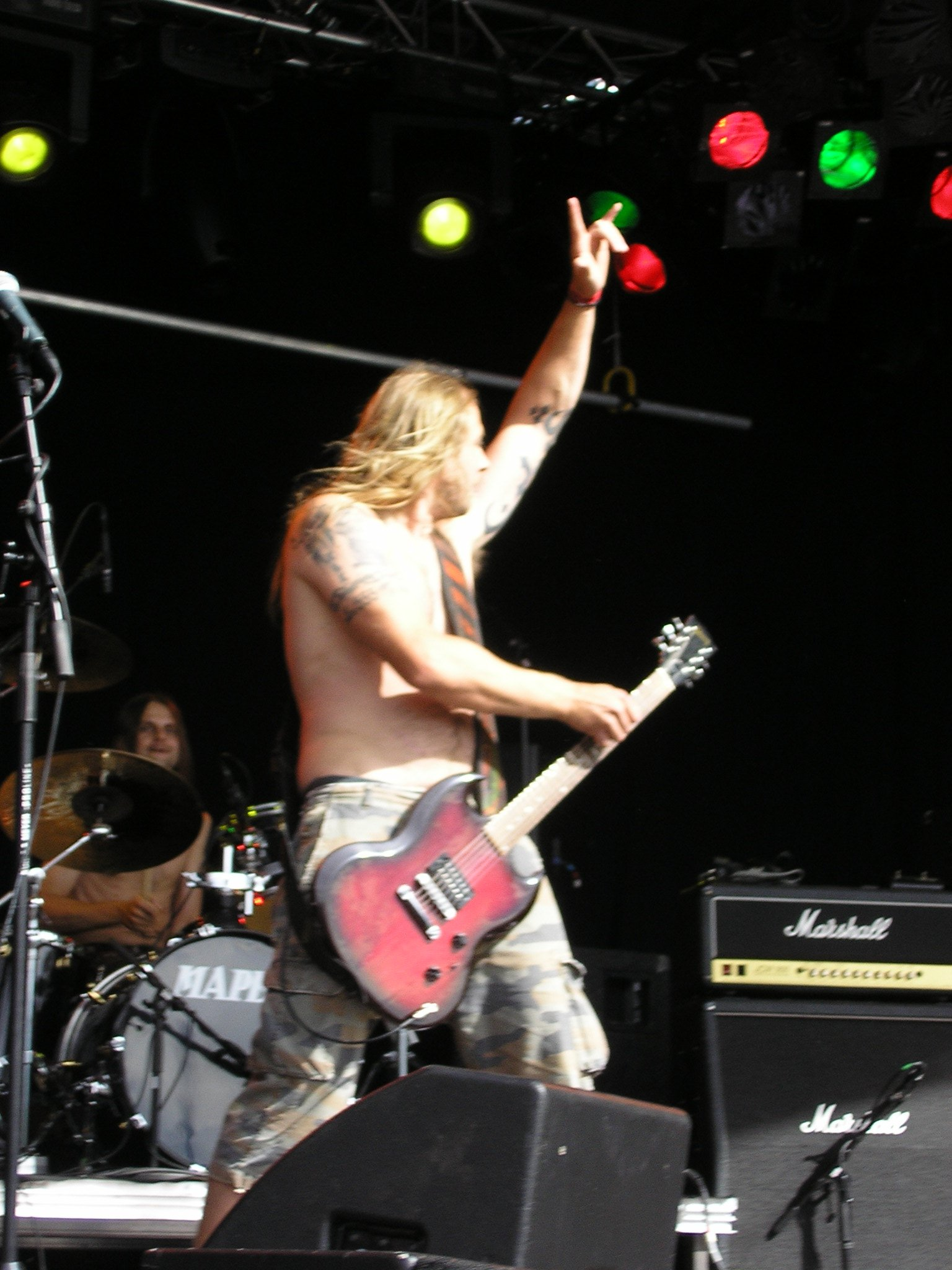 MID playing at Augustibuller 2007.